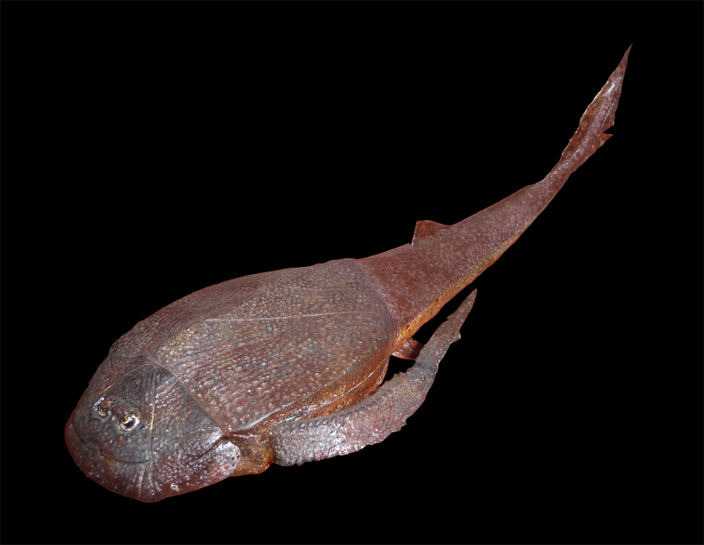 Bothriolepis canadensis